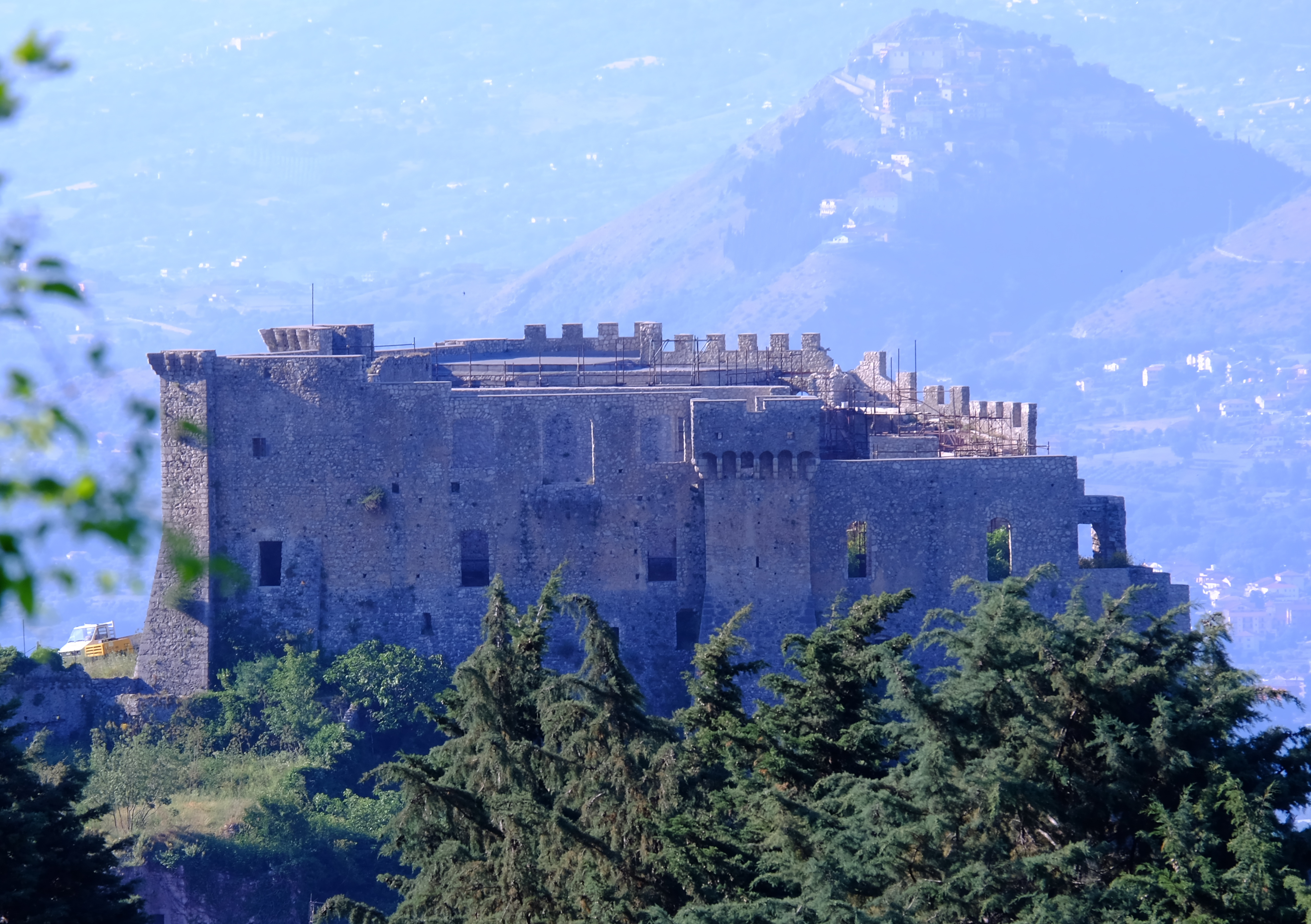 The Castle of Sicignano degli Alburni